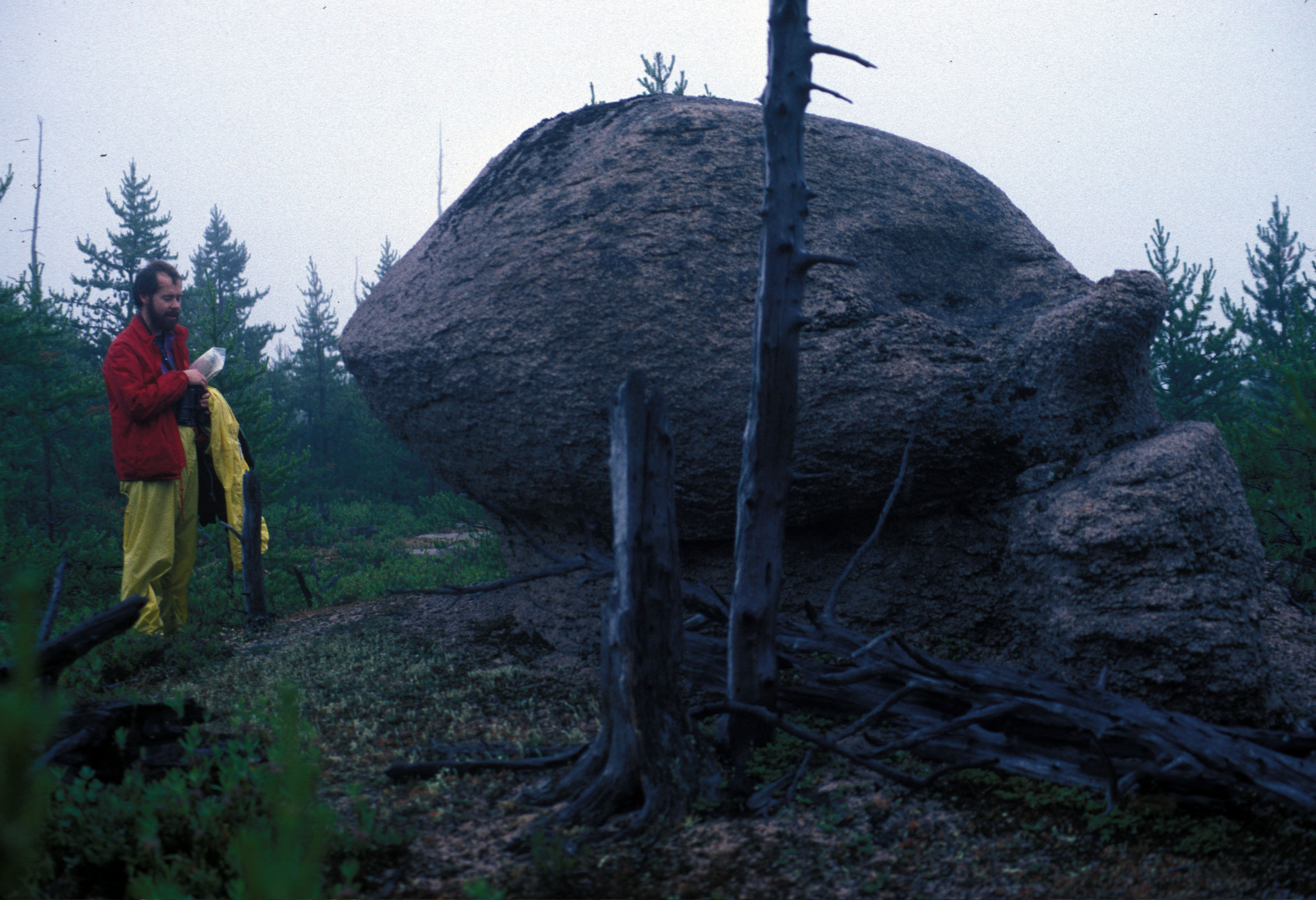 Tors on Colonels Mountain, New Brunswick, Canada (IR Walker 1986).